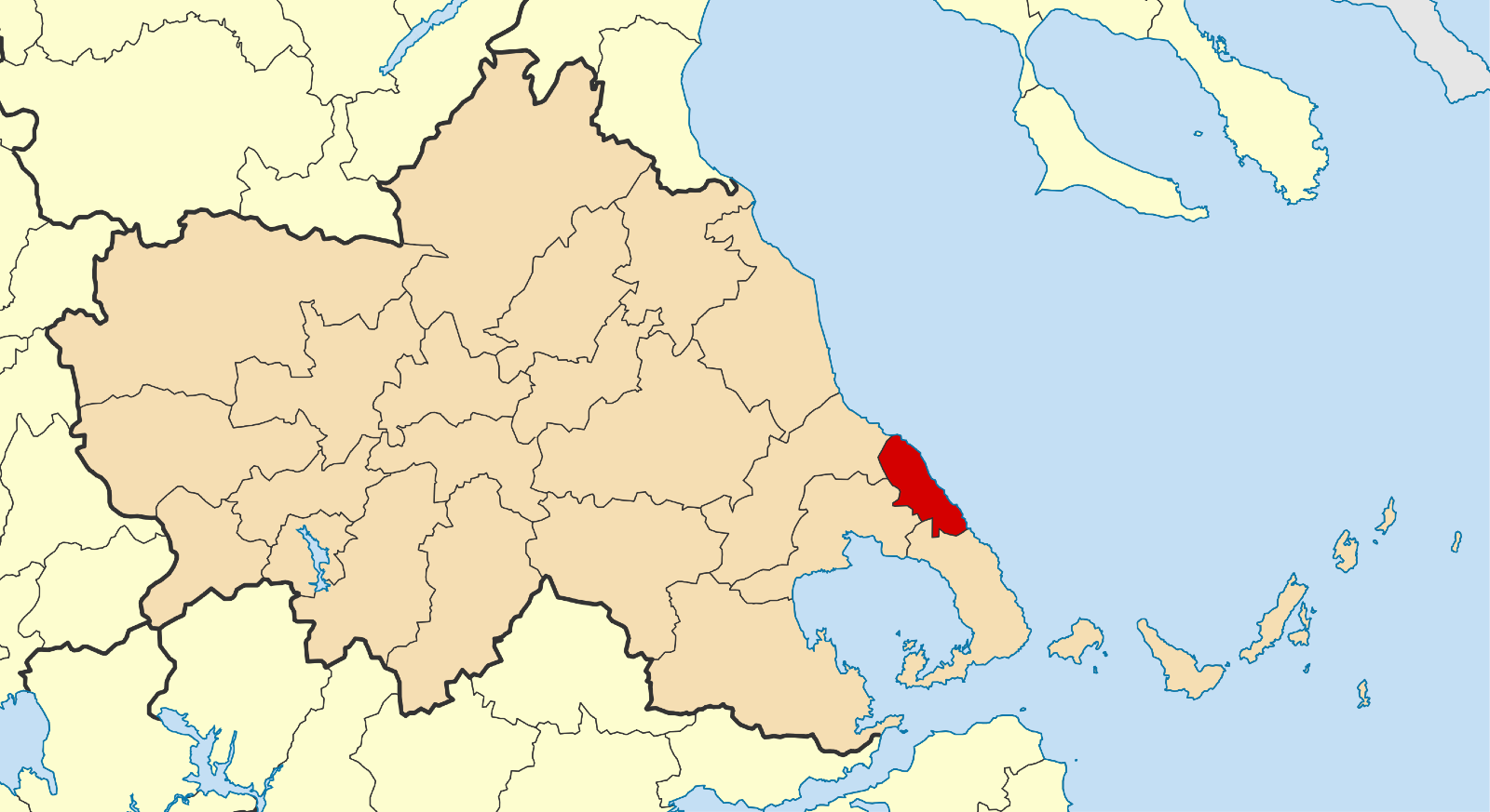 Locator map for Zagora-Mouresi municipality in Greek region Thessaly (2011)